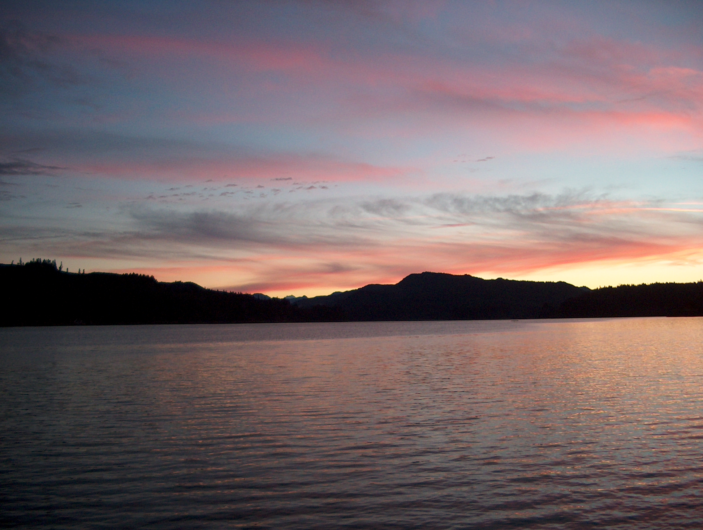 Foster Lake near Sweet Home, Oregon